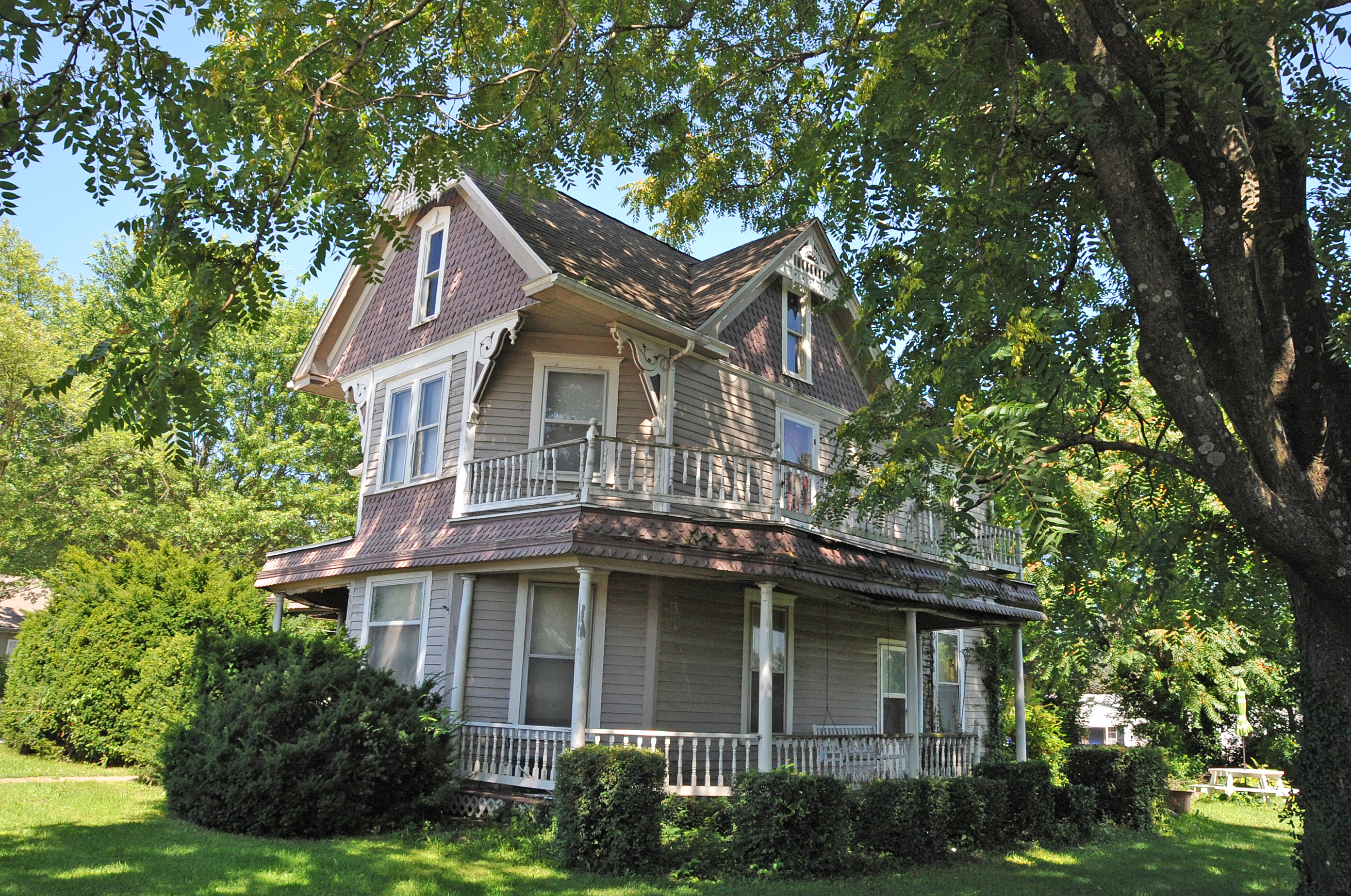 Built about 1896 in a Queen Anne style, it was owned by a wealthy Cuba businessman and remains one of the biggest houses in Cuba. Hamilton ran several businesses, including a farm-equipment dealership, a gravel pit, and oil business and a silent-movie theater.